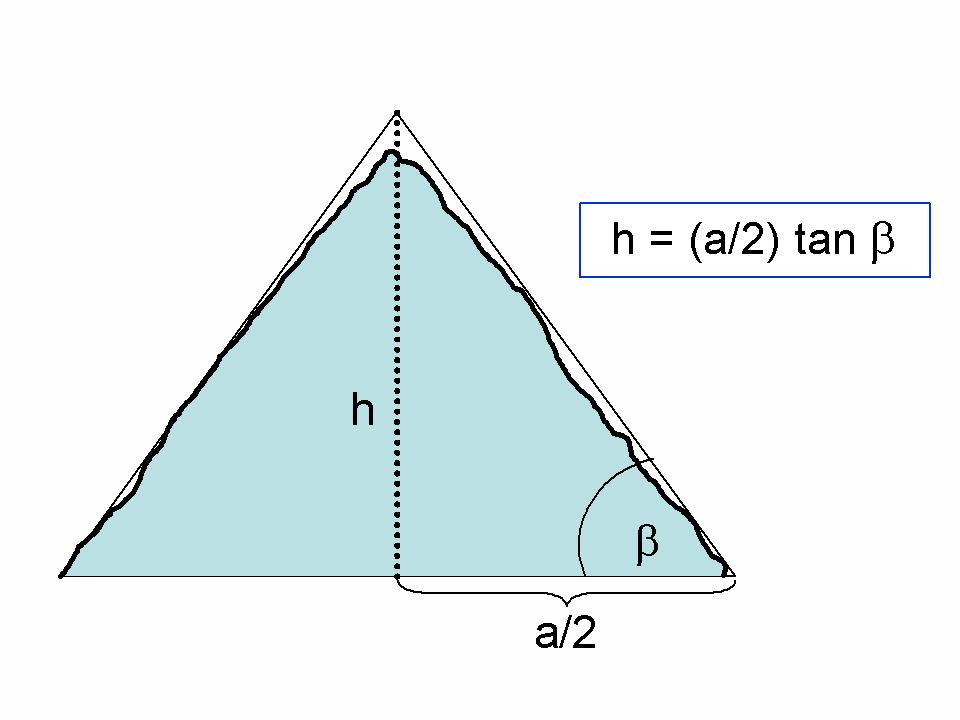 replaces Pyramid-bild2.png, improved typing of formula